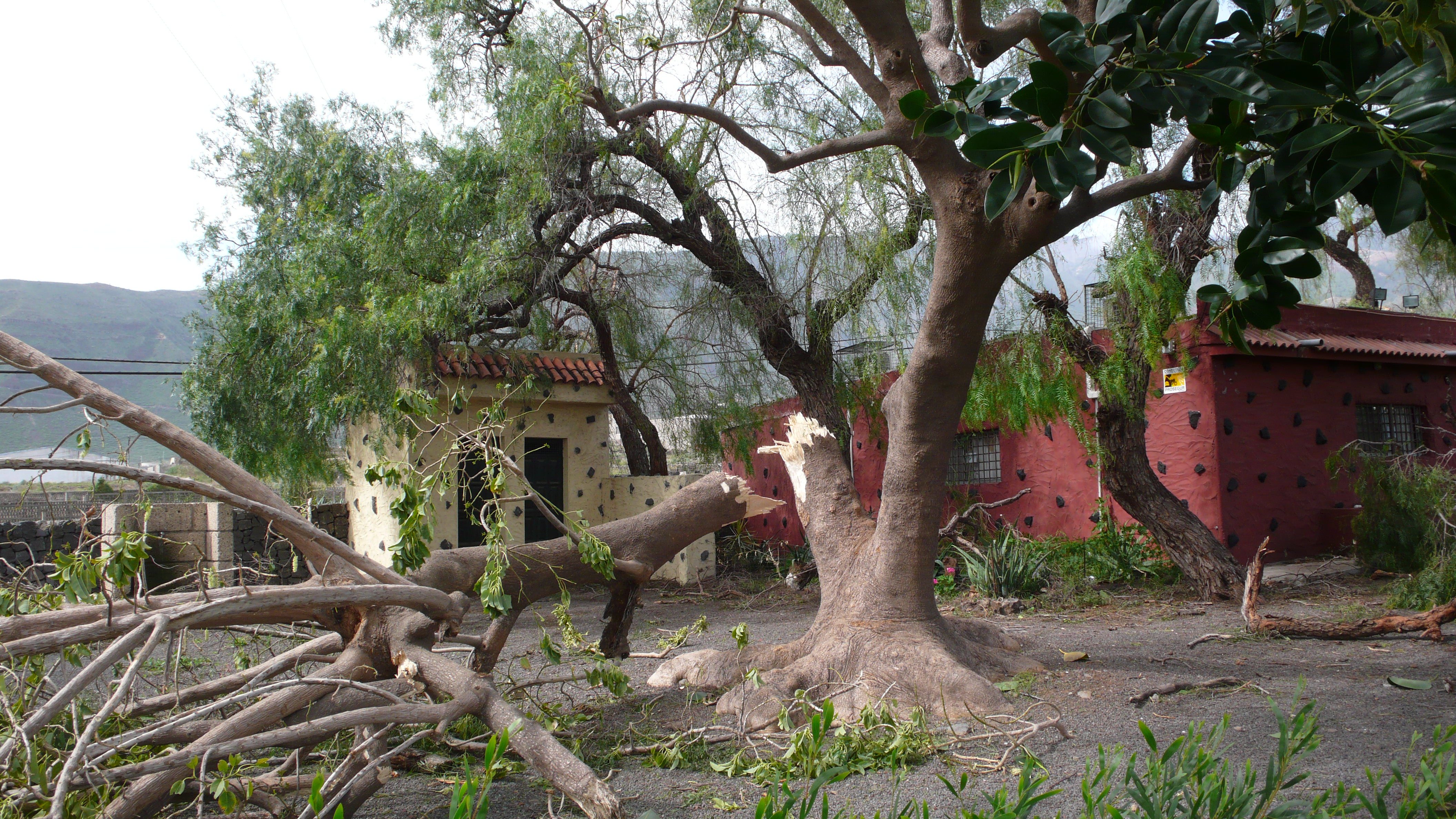 European windstorm Xynthia.